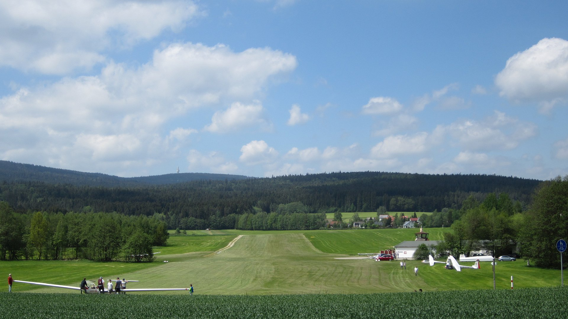 Glider airfield in Tröstau, Fichtelgebirge - Schneeberg in the background